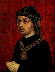 Louis III of Naples ?